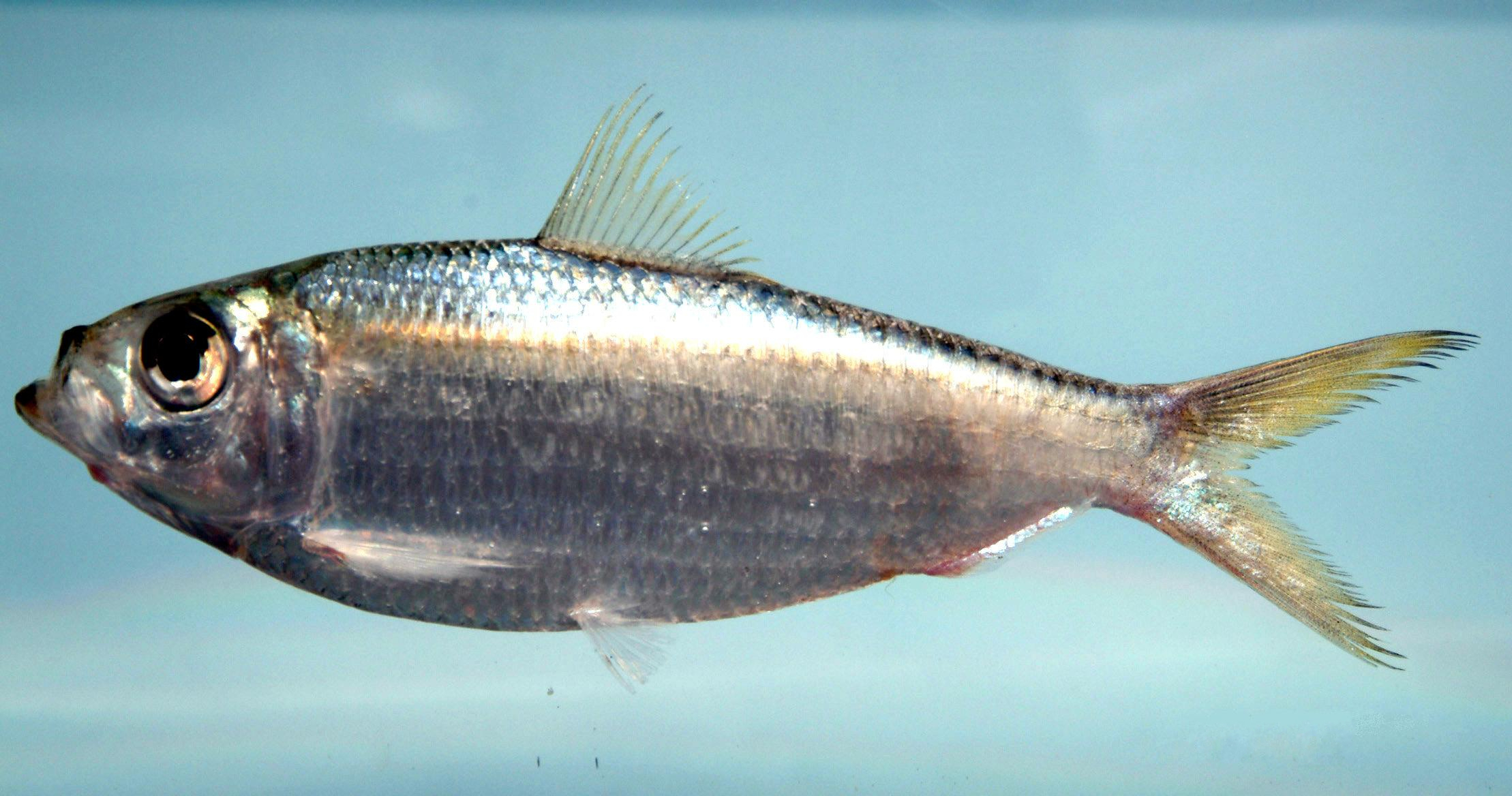 Scaled sardine (Harengula jaguana). Gulf of Mexico. Credit: SEFSC Pascagoula Laboratory; Collection of Brandi Noble, NOAA/NMFS/SEFSC.